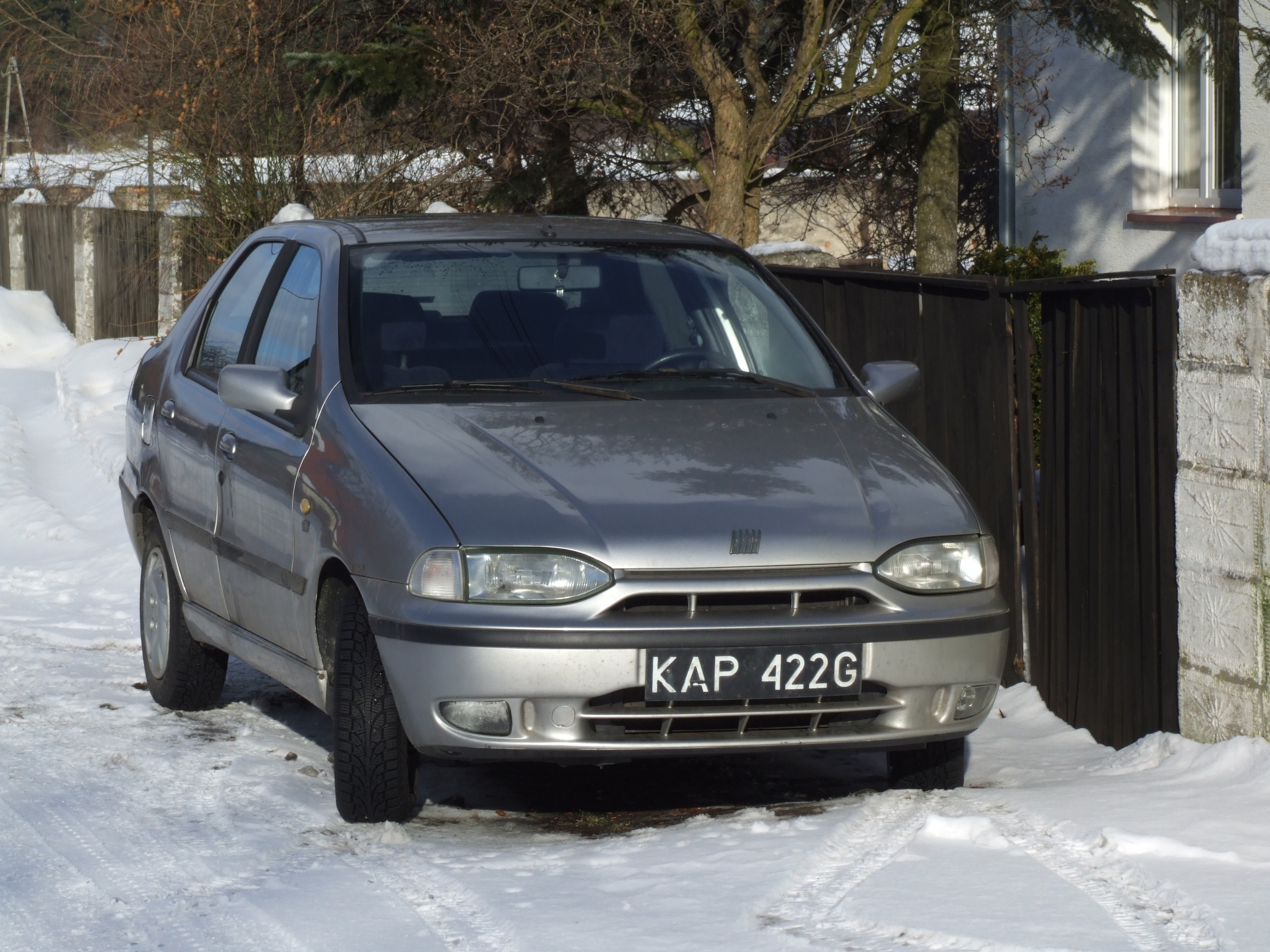 Fiat Siena EL 1.6 16V, Silesia